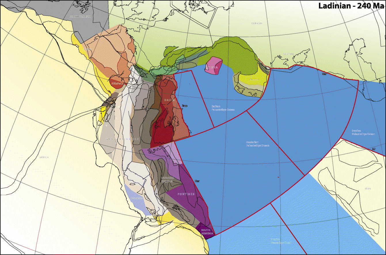 Graphical abstract from [1]. Graphic showing portions of what would become North African coast that would rift to become the micropaleocontinent Greater Adria.